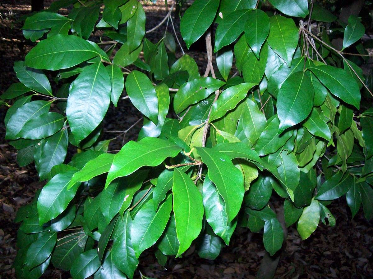 Bosistoa transversa, Coffs Harbour Botanic Gardens, Australia